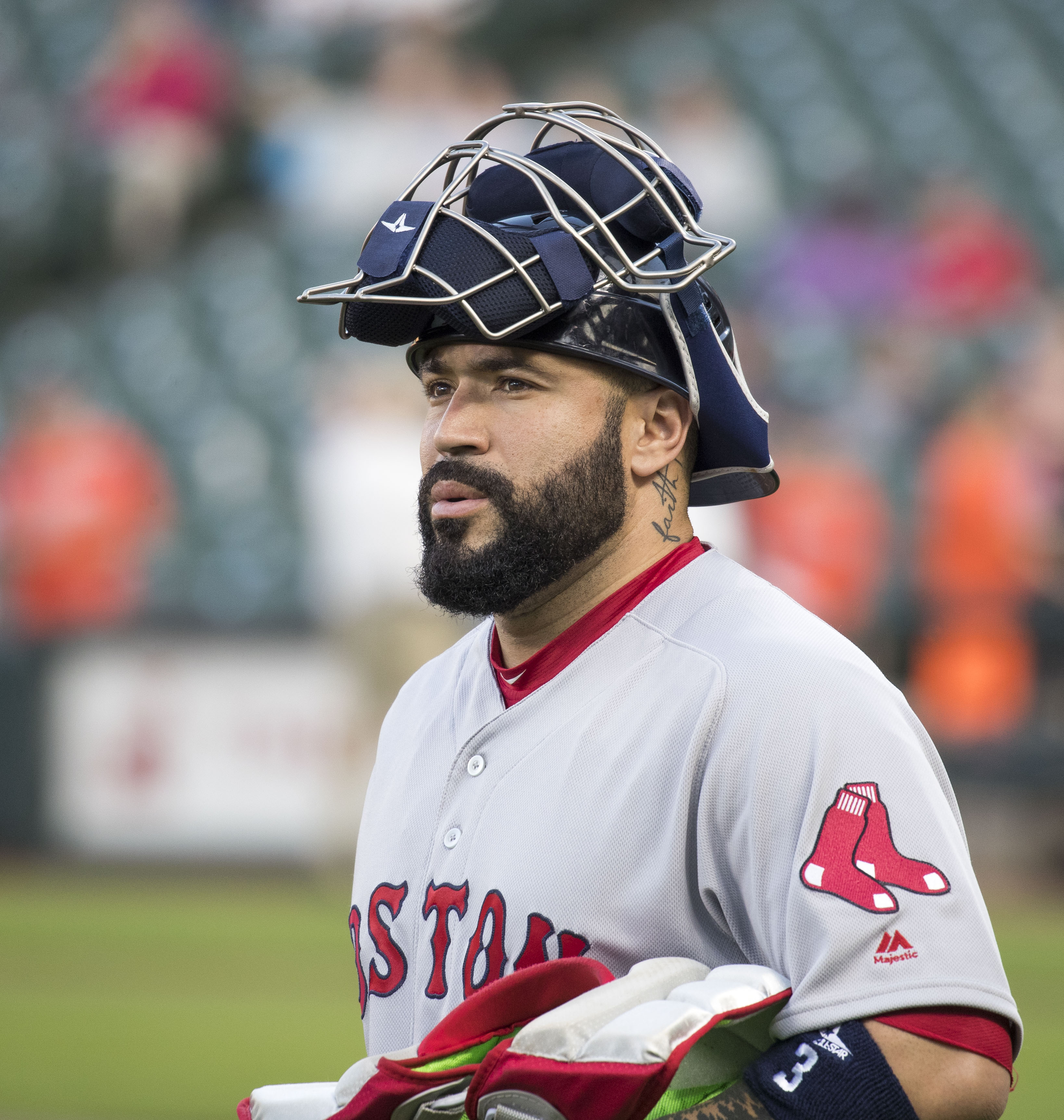 Red Sox at Orioles 9/18/17